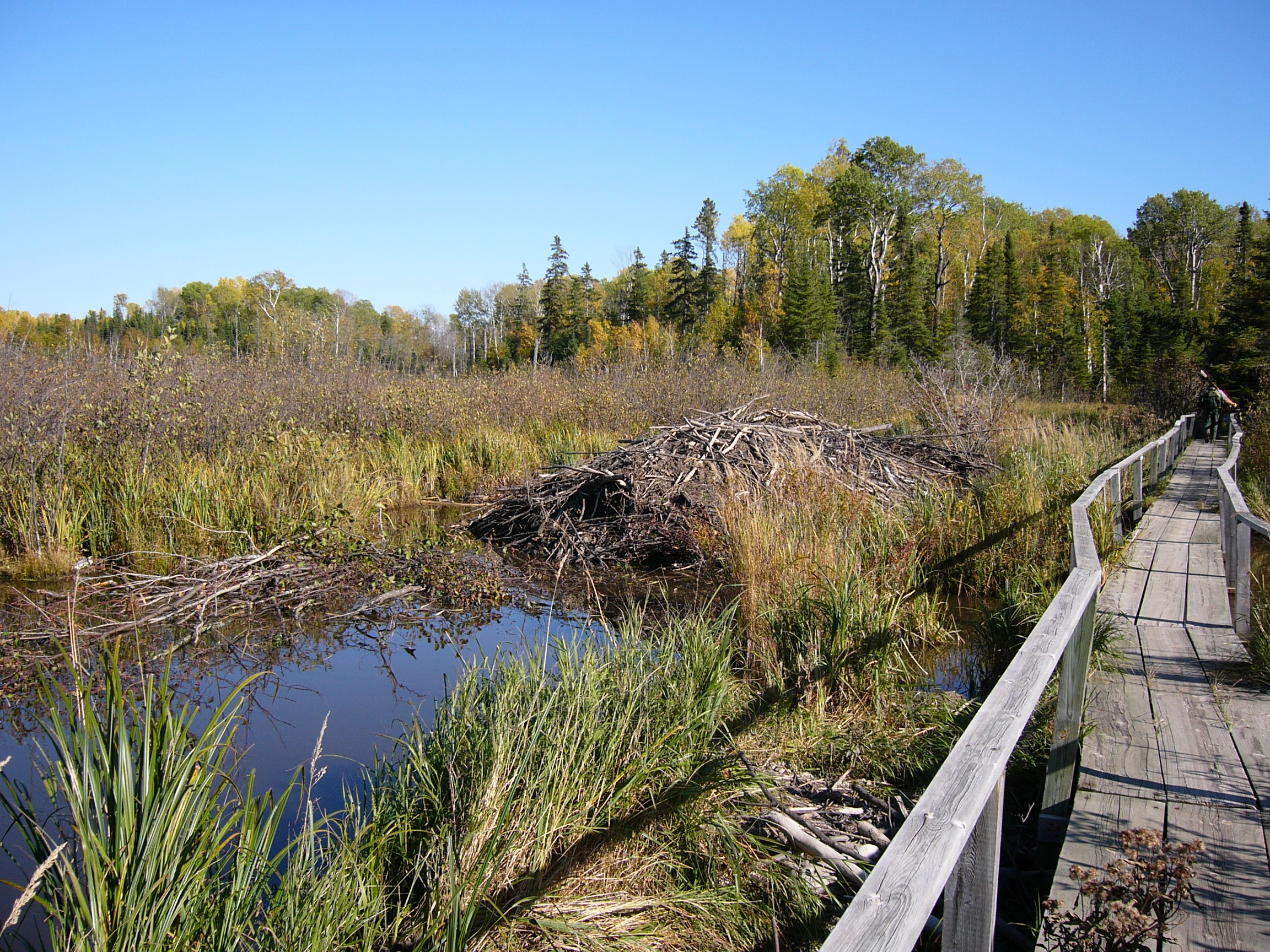 Grand Portage National Monument, Minnesota, USA. The portage, a 8.5 mile long foot path between Lake Superior and the former Fort Charlotte, bypasses the water falls of the Pigeon River. Beaver lodge along a part of the path that is build as a boardwalk.